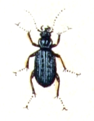 Leistus spinibarbis, from Calwer's Käferbuch, Table 5, Picture 1. Taxonomy was updated to 2008, using mostly the sites Fauna Europaea and BioLib. Please contact Sarefo if the determination is wrong!